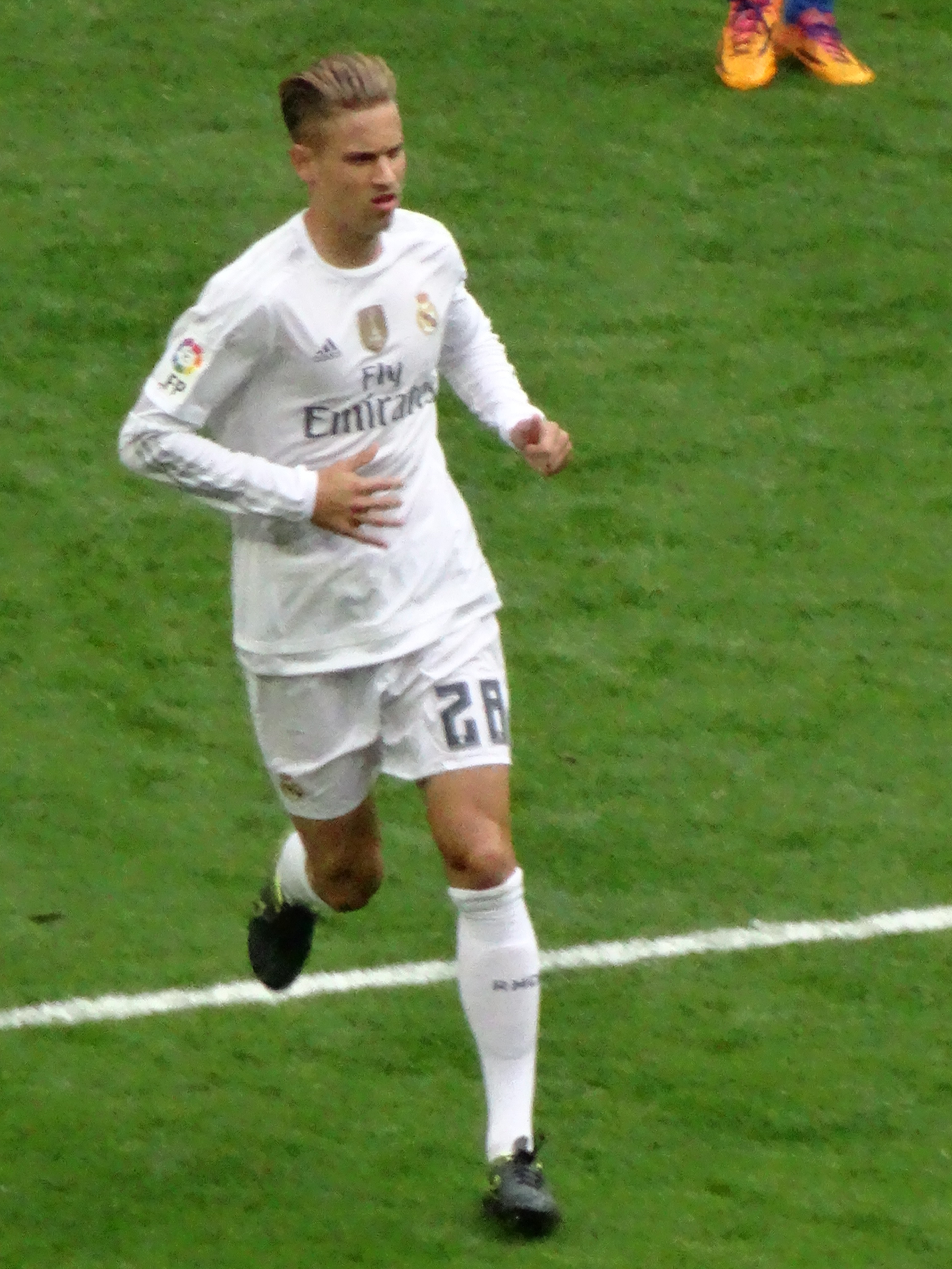 Marcos Llorente in his La Liga debut match against Levante, 17 October 2015.